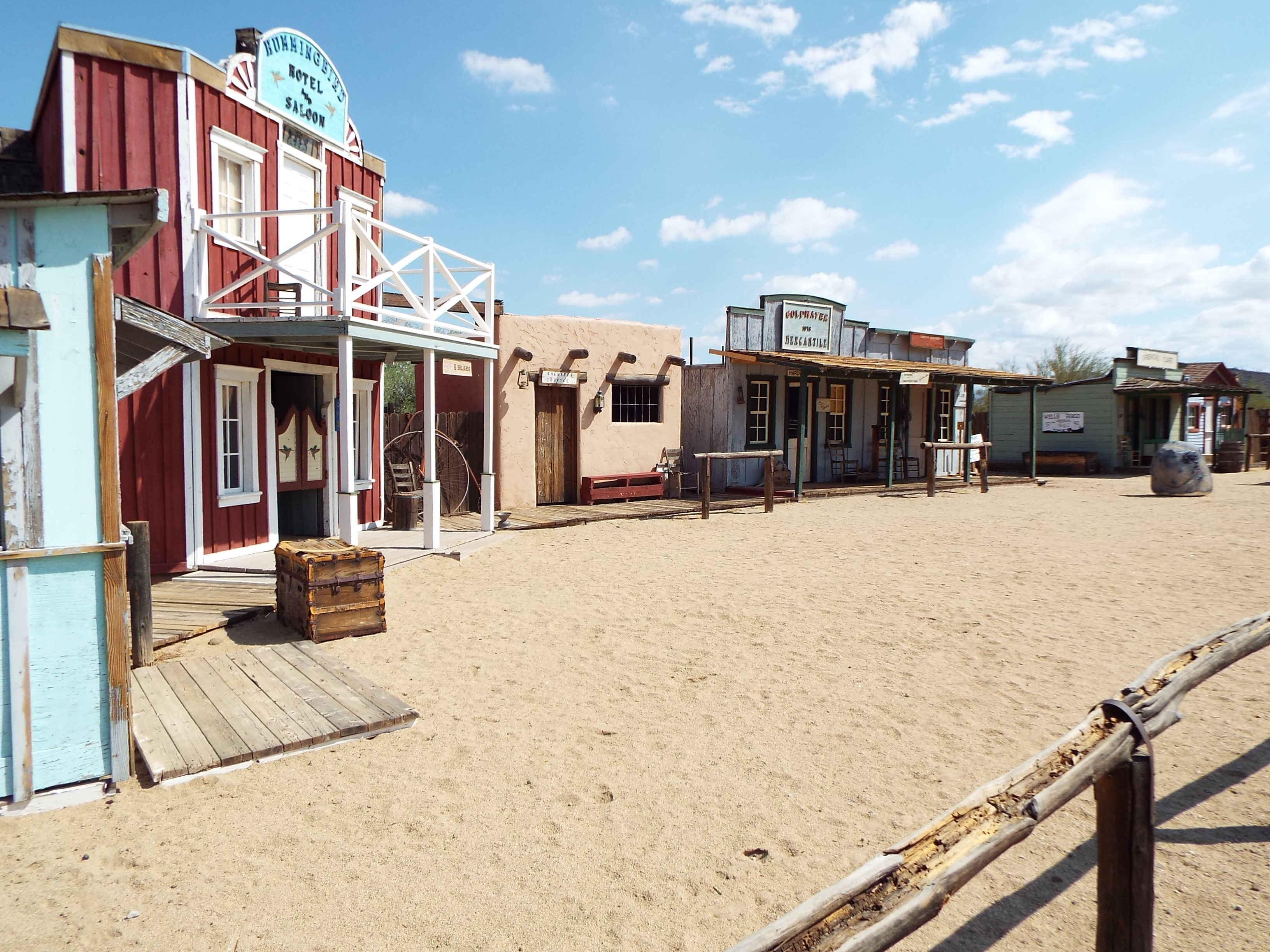 Main Street of the Pioneer Living History Museum. The museum is located 3901 W. Pioneer Road in Phoenix, Arizona.